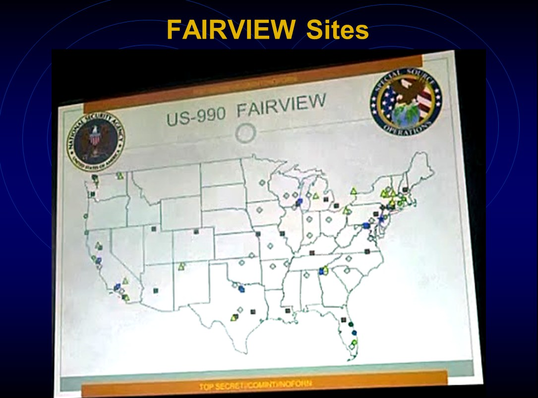 Map of FAIRVIEW SIGAD